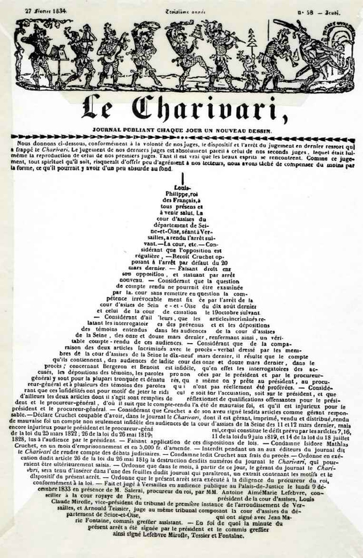 Le Charivari magazine published 27 February 1834 on its cover the text of the judgement of a lawsuit against it in the form of a pear